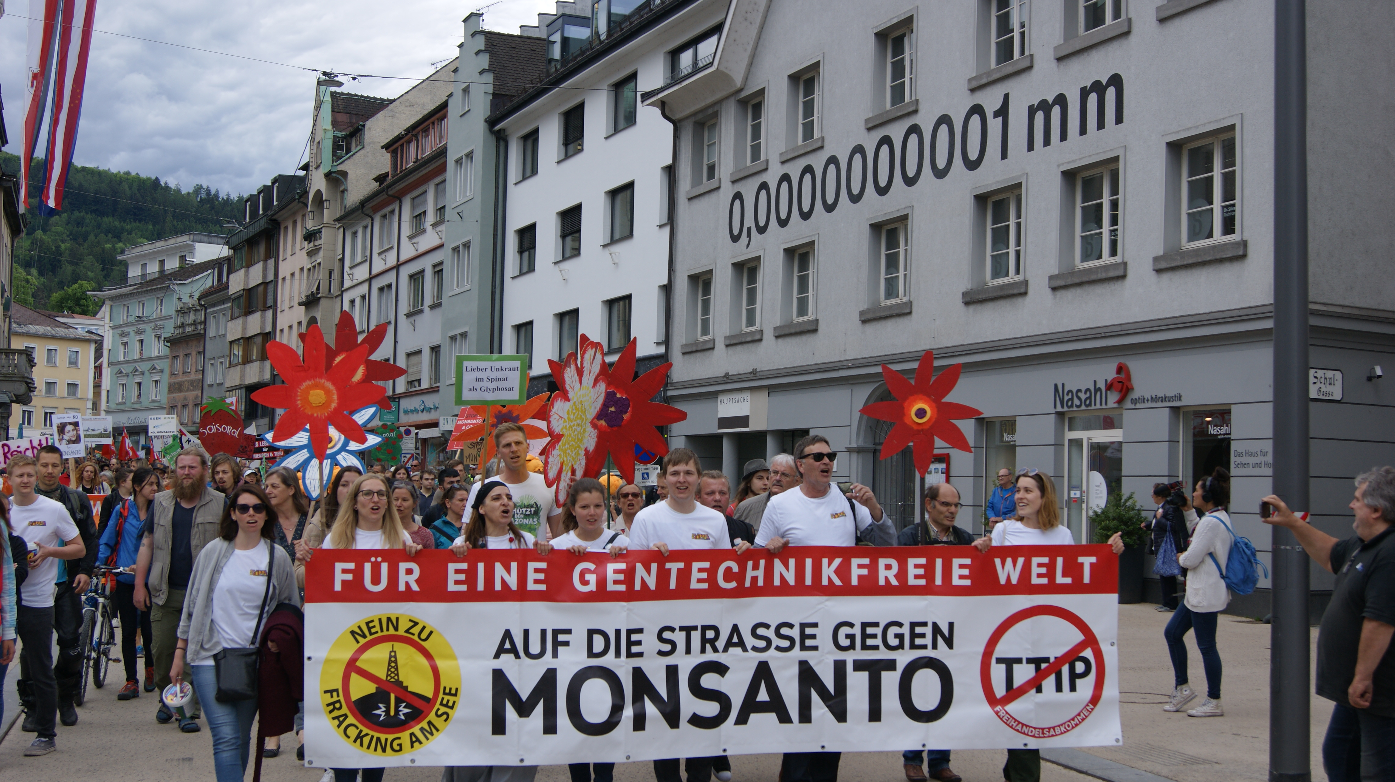 March Against Monsanto (MAM) on 20 May 2017 in Bregenz, Vorarlberg, Austria.